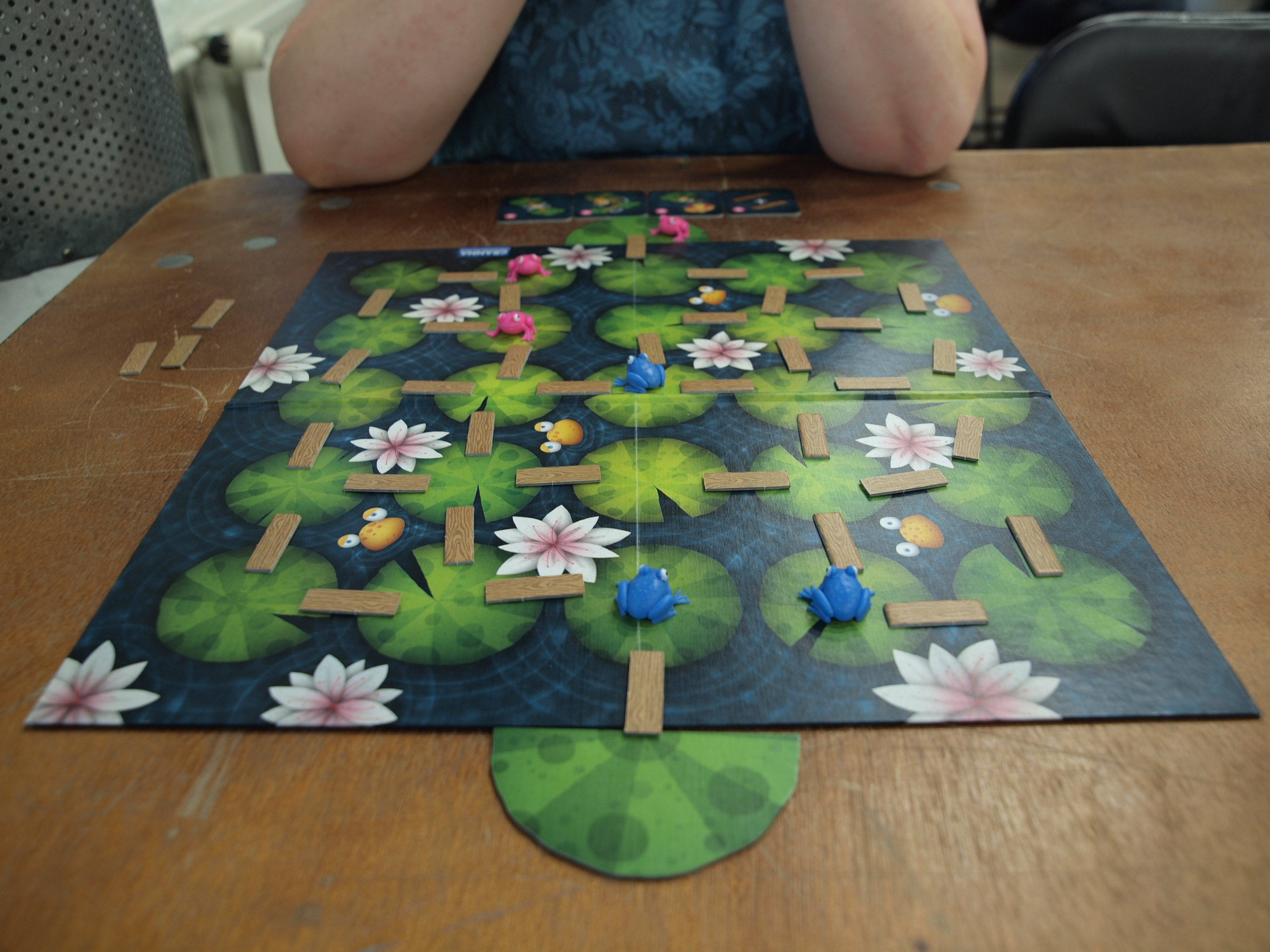 A game of Hooop! being played at the annual board game festival of Finland in Helsinki, Finland.